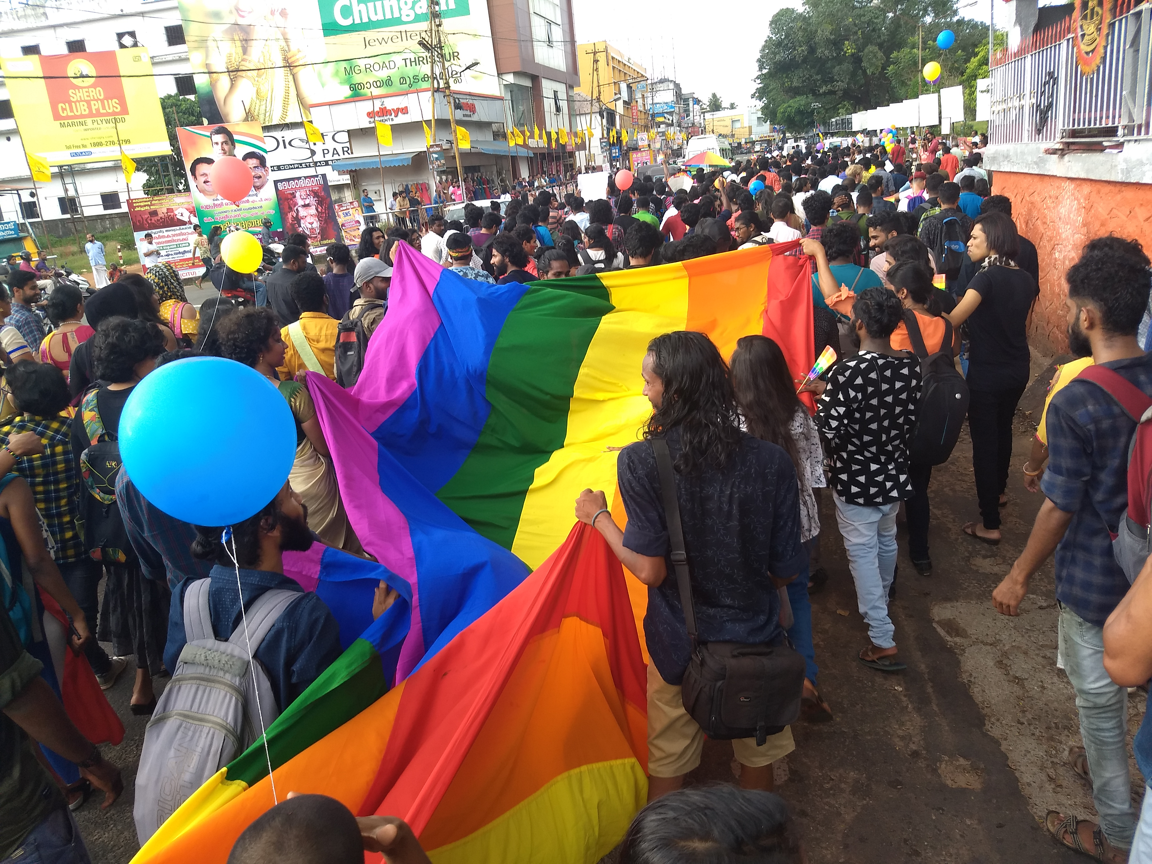 Kerala Pride March on 7th October 2018 as a part of Kerala Queer Pride Program, Thrissur, Kerala This photo has been taken in the country: India